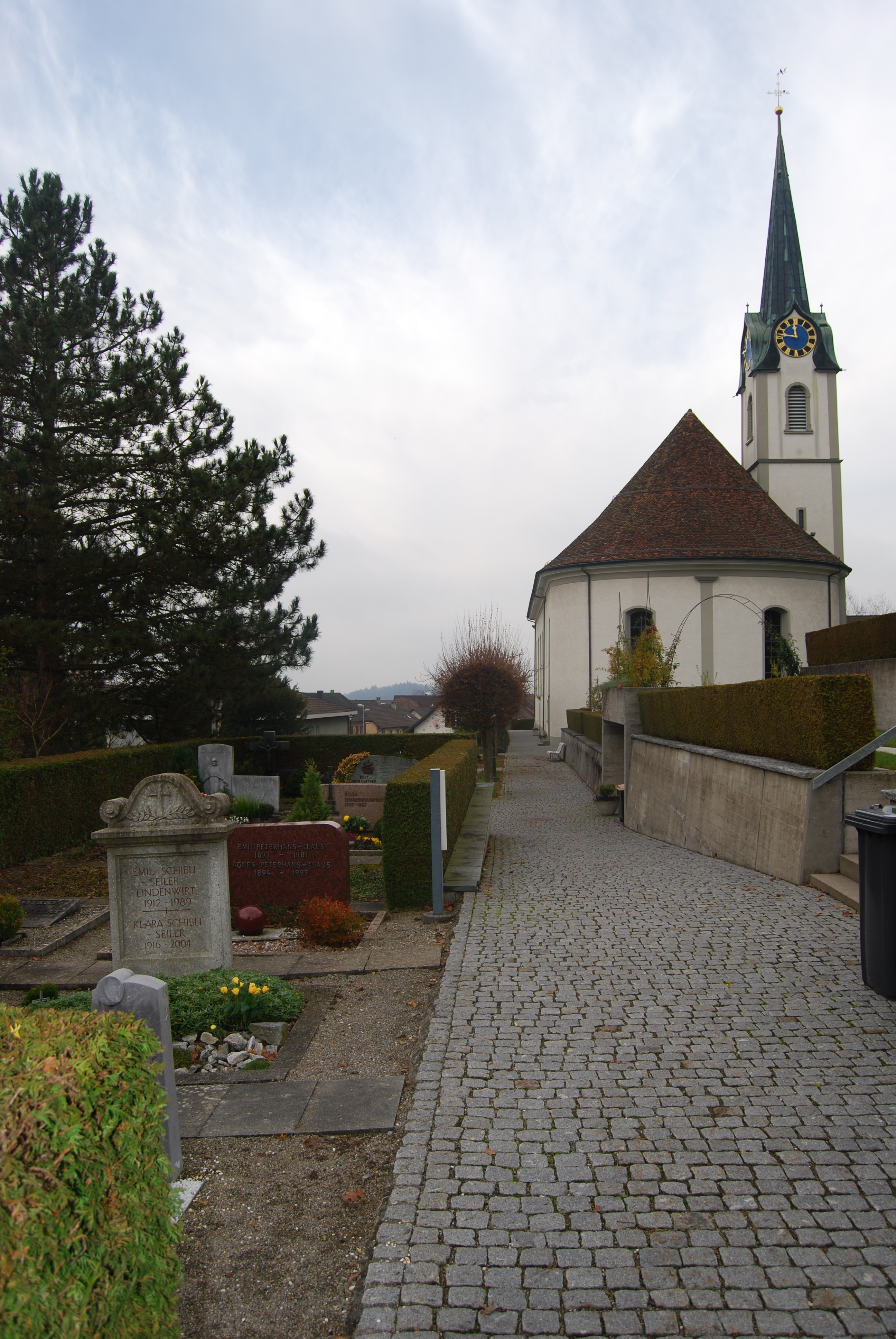 Church of Fislisbach with cemetery, canton of Aargau, SwitzerlandEsperanto: Preĝejo de Fislisbach kun tombejo, Kantono Argovio, Svislando